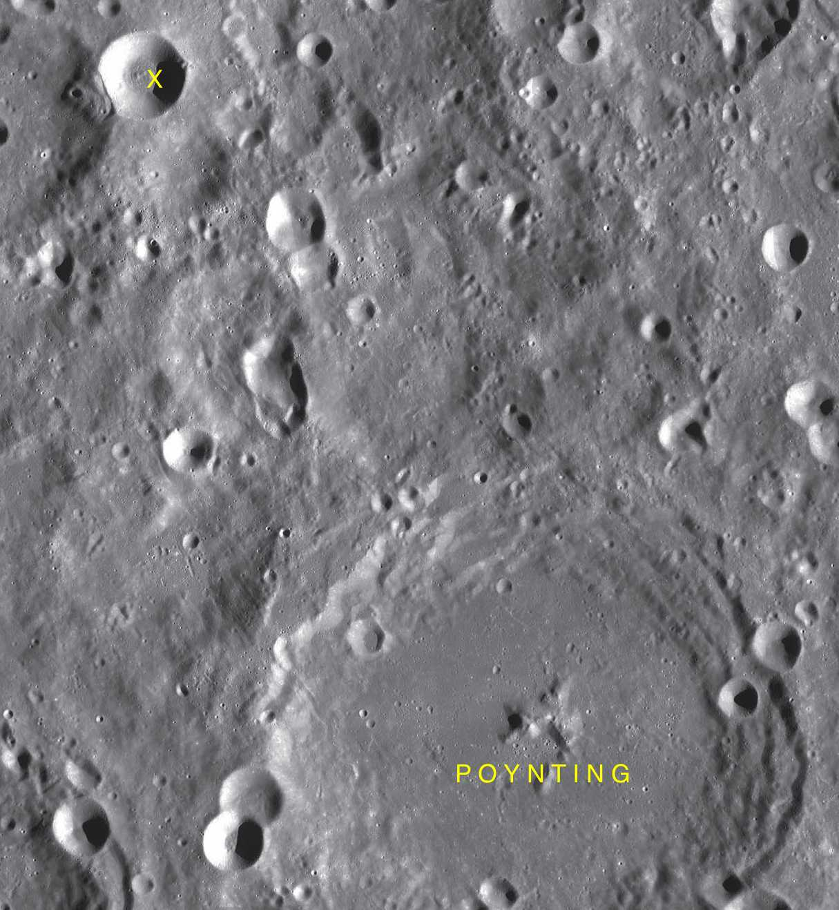 Part of the chart LAC-52 used for the presentation.